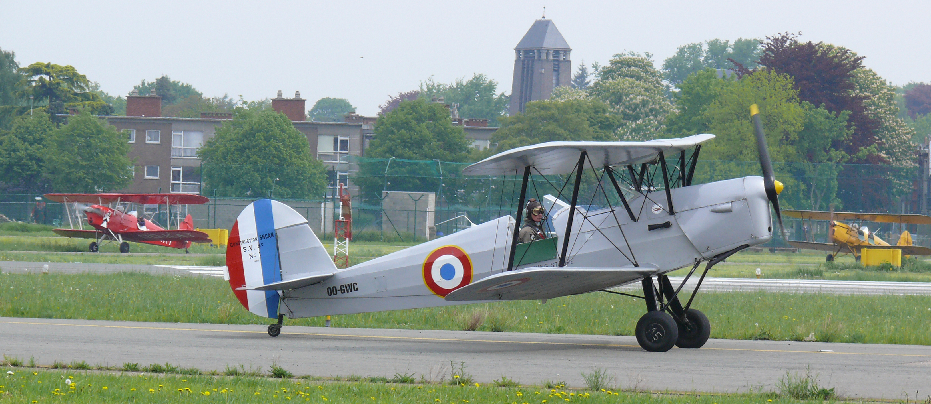 Stampe en Vertongen SV.4A (OO-GWC) during the Stampe Fly-in 2010. This is the first French built SV.4.